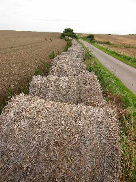 The Road to the coast & Tunstall, East Riding of Yorkshire, England.View along the road which runs EW through the grid square. The road turns right at the cliff top towards Tunstall.